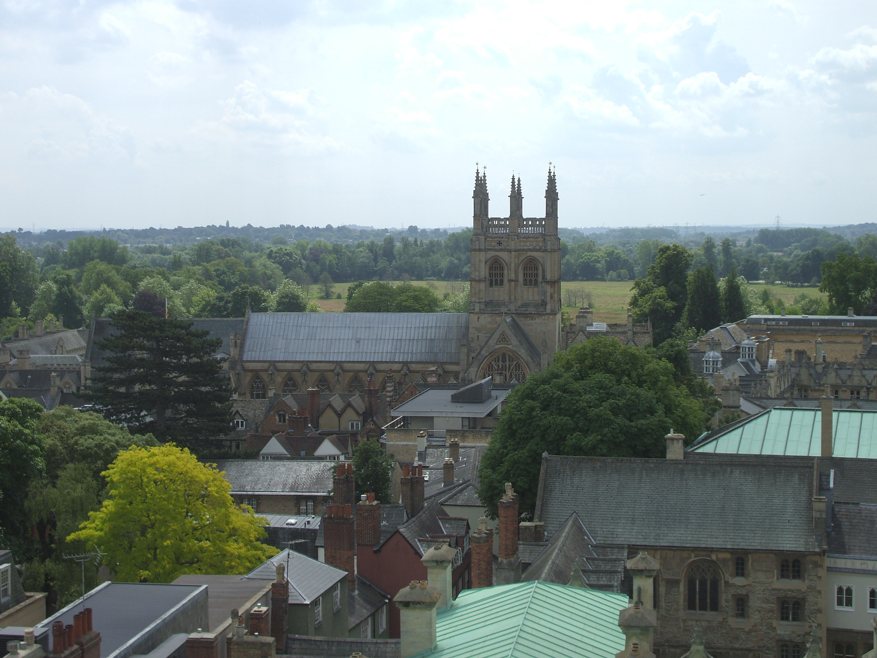 A view of Merton College from the St Marys in the North, including the chapel.